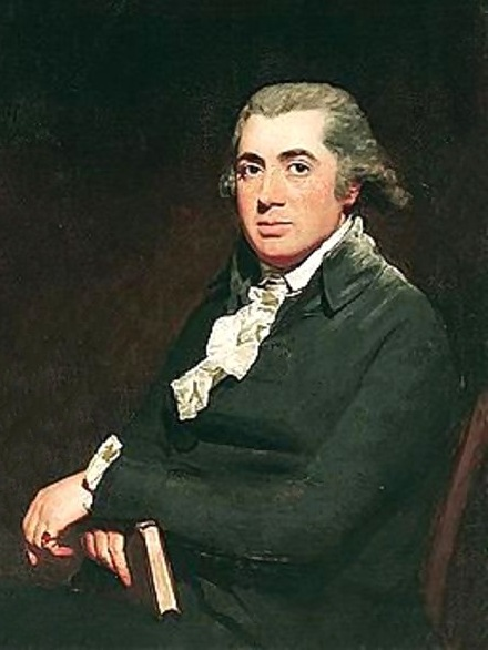 Benjamin Bell of Hunthill (1749–1806)